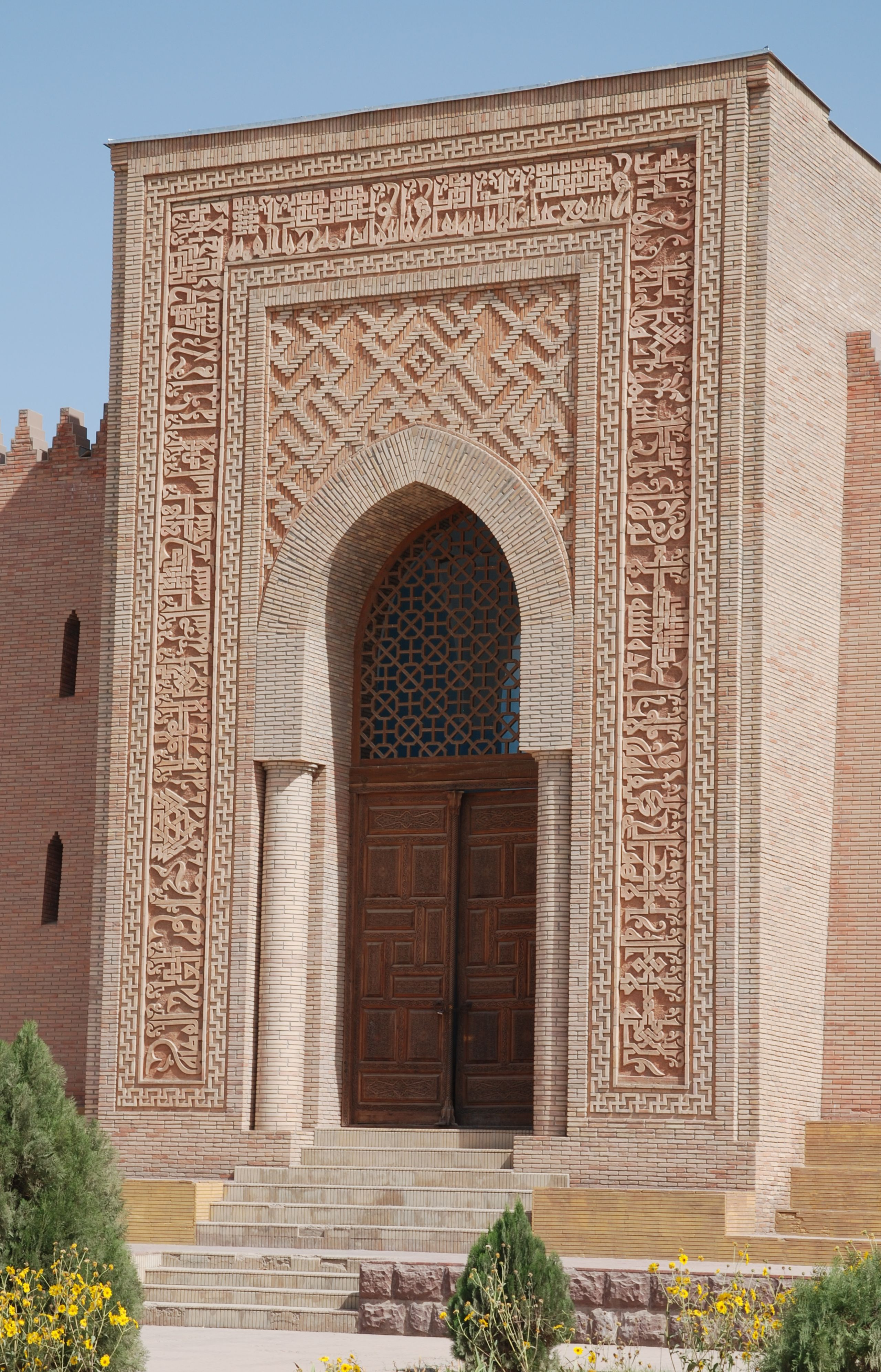 Hulbuk, Khurbon Shahid, west portal